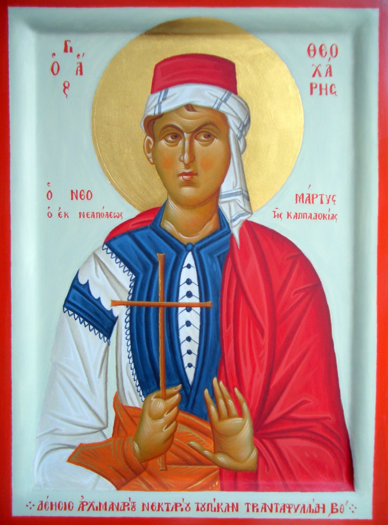 Byzantine icon of Saint Theocharis